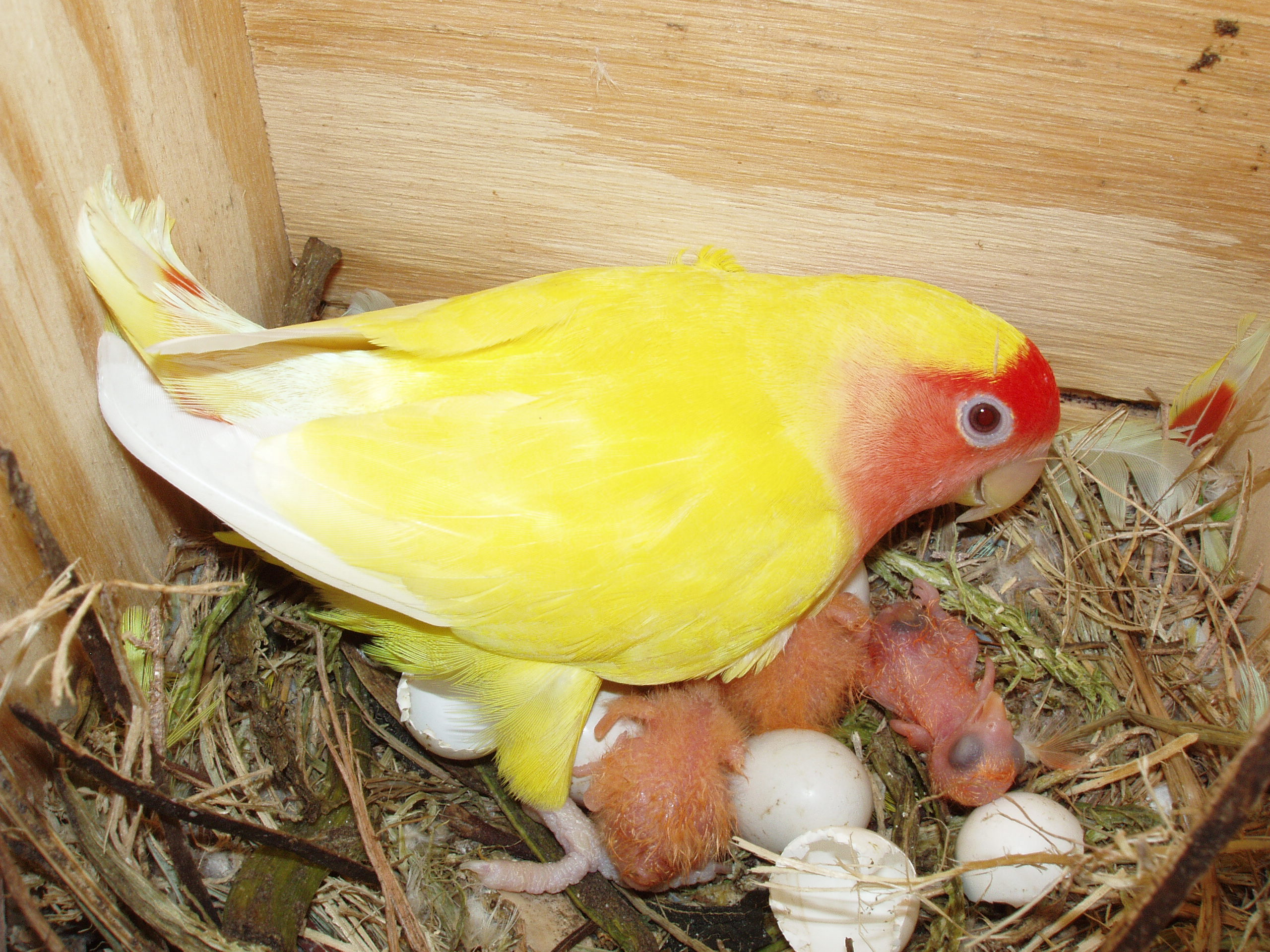 (Agapornis roseicollis) Peached-faced Lovebird (colour mutant) with chicks and eggs in a nest box.